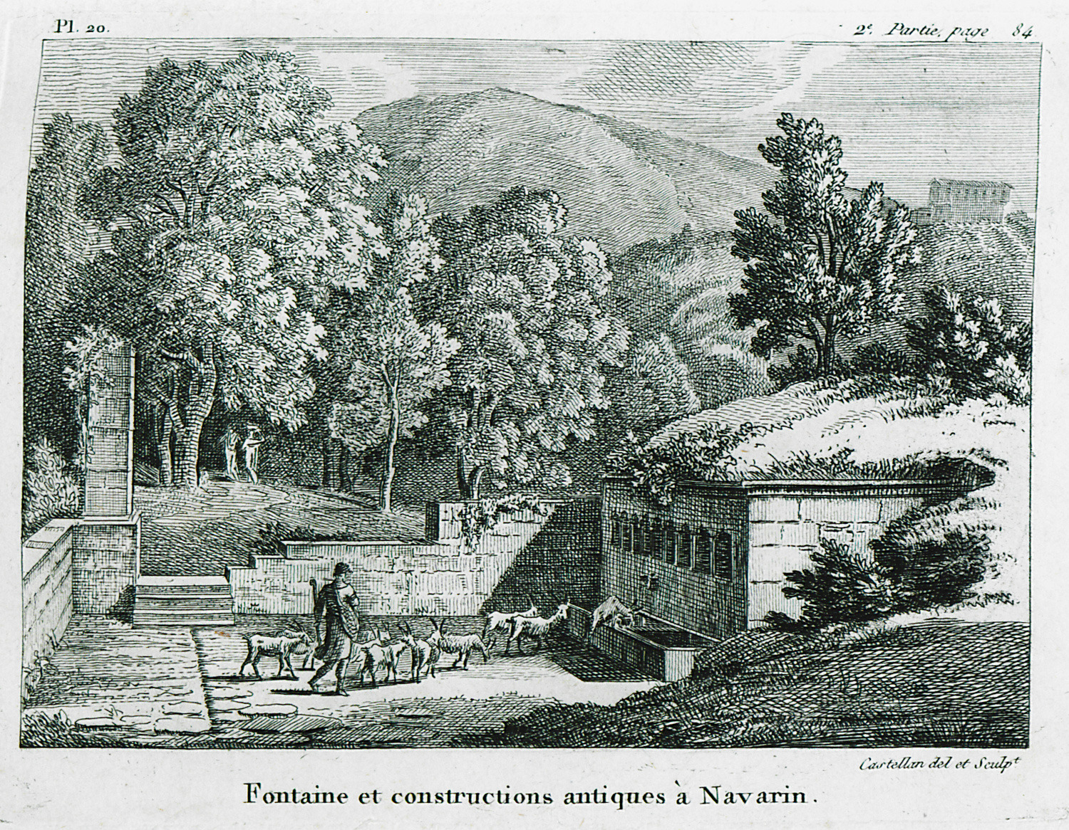 Antoine-Laurent Castellan. Lettres sur la Morée et les iles de Cérigo, Hydra, et Zante, avec vingt-trois Dessins de l’Auteur, gravés par lui-même, et trois Plans, Paris, Η. Agasse, 1808.